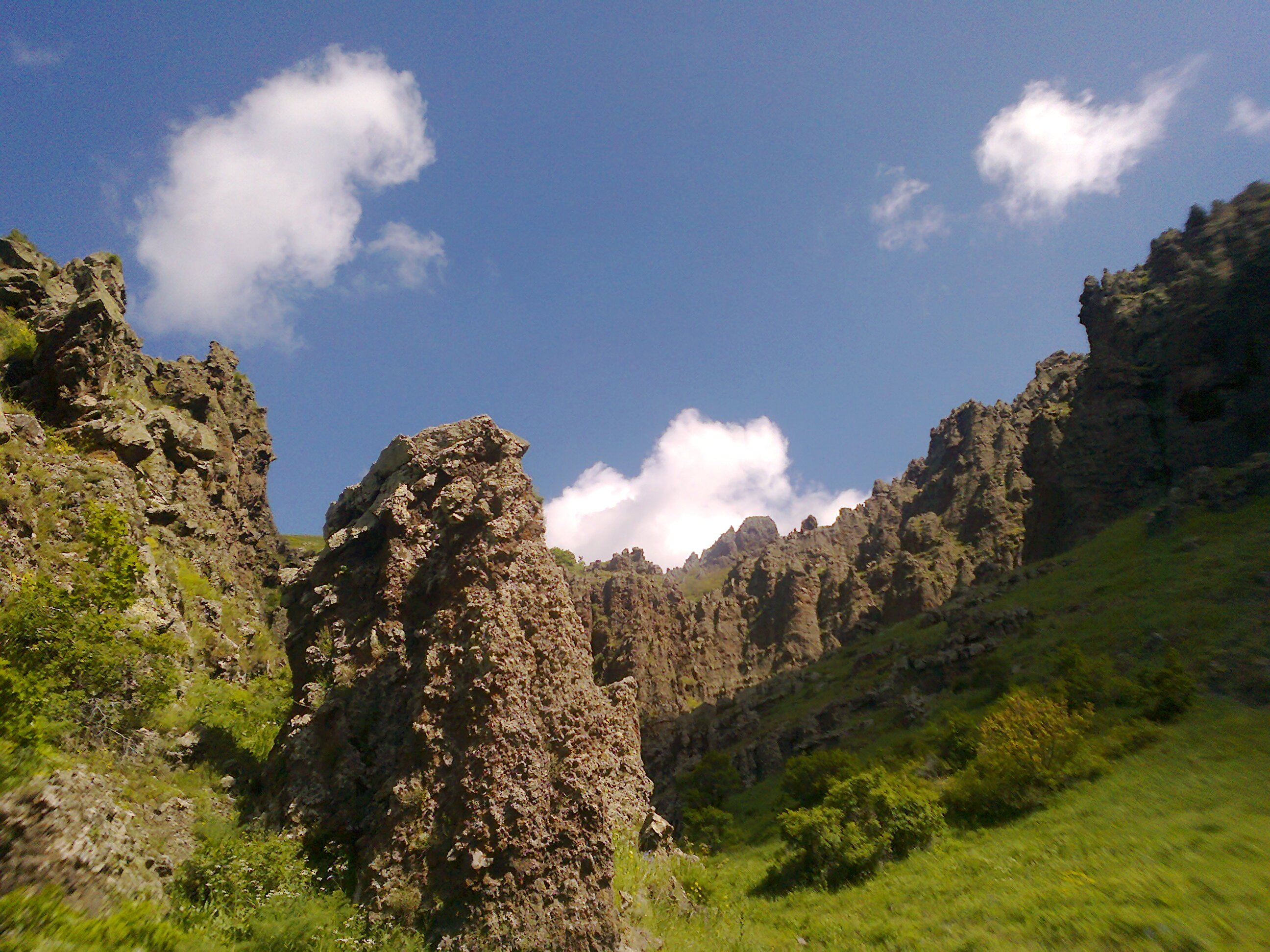 Rocks on mount Ara